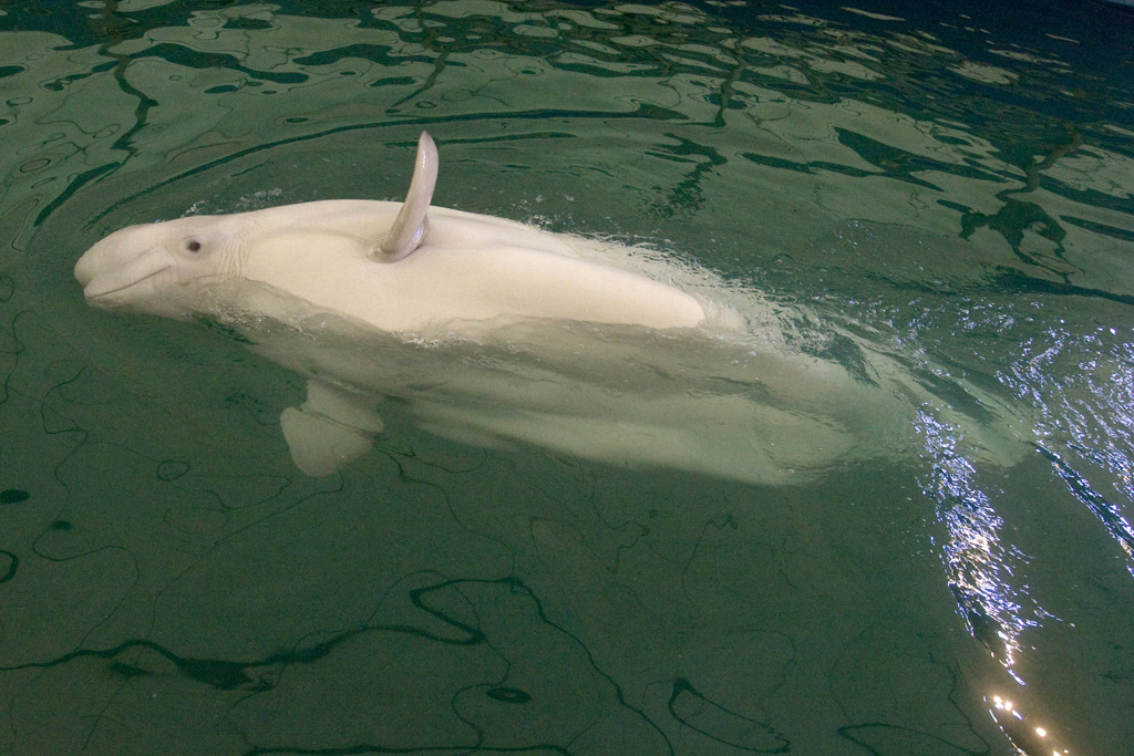 “White whales performing at the Moscow Zoo dolphinarium”. White [Beluha] whales performing at the Moscow Zoo dolphinarium.